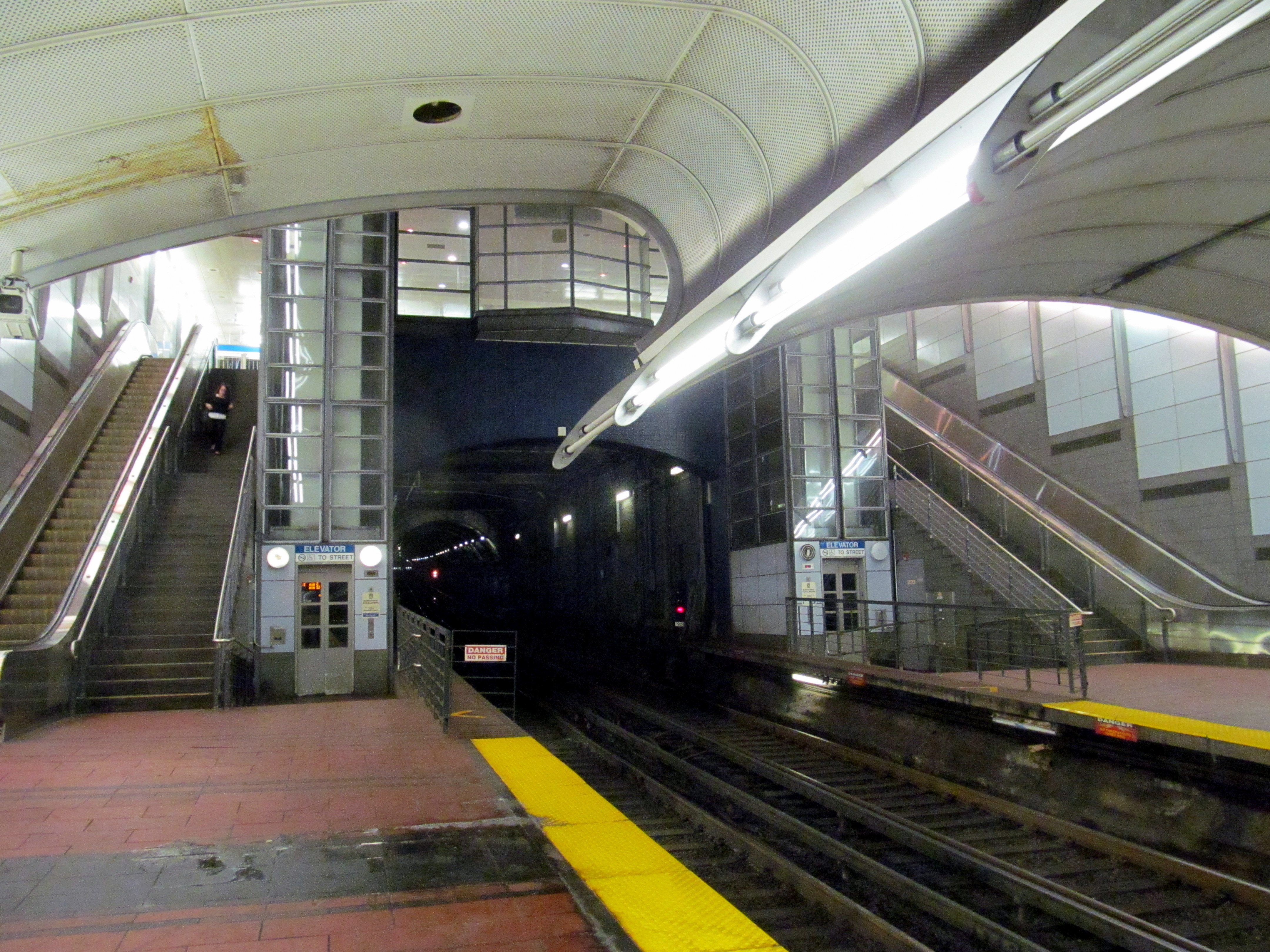 The west end of Aquarium station, showing the 2001-added west entrance, in August 2015